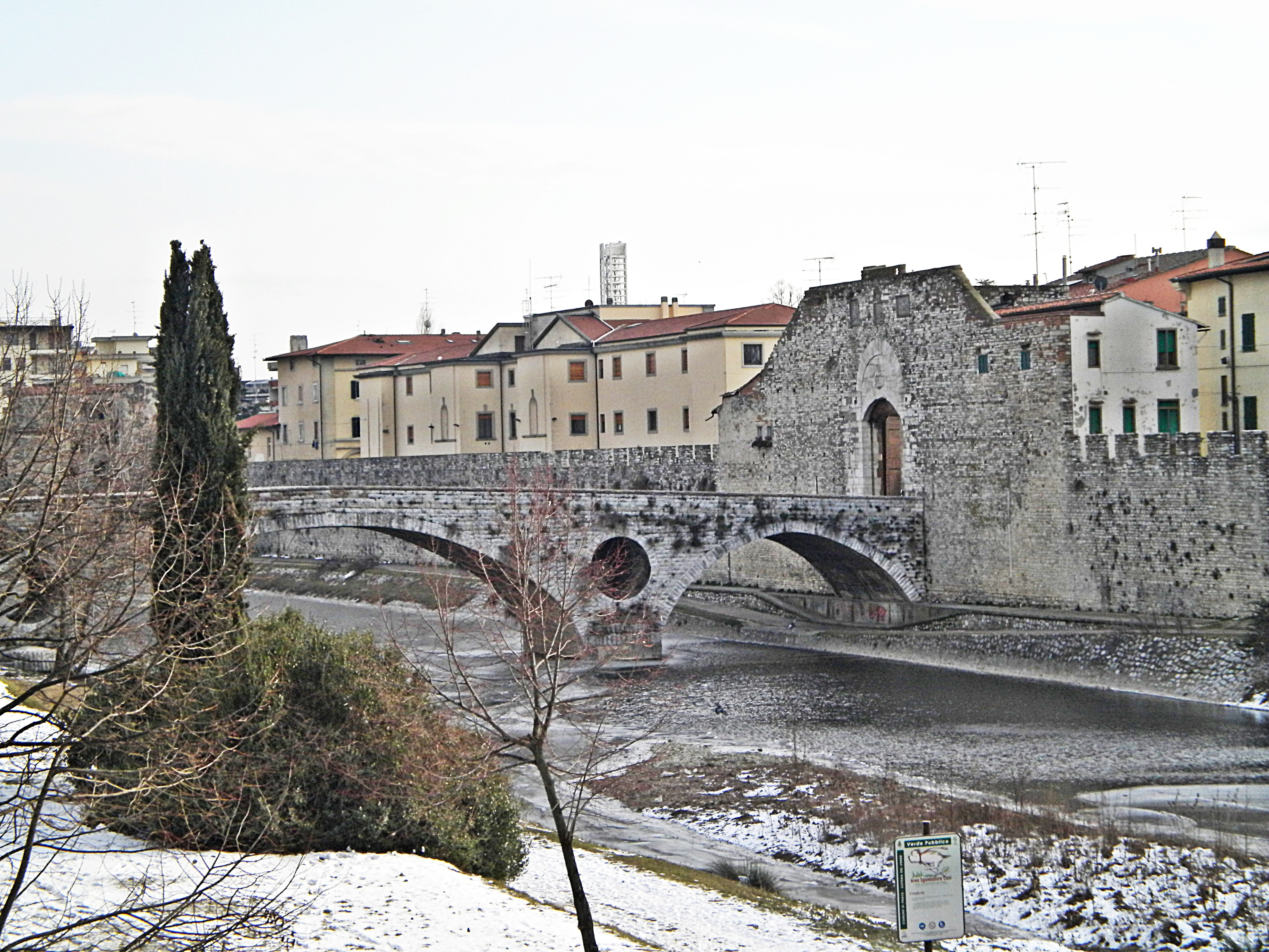 Iced Bisenzio river at Mercatale bridge